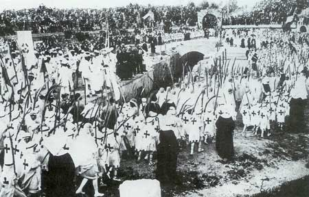 photo of eucharistic congress in Carthage 1930.